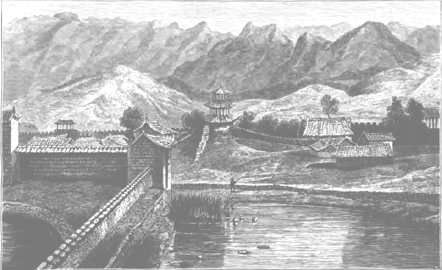 Late nineteenth century view of Tengyue, Yunnan Province, China